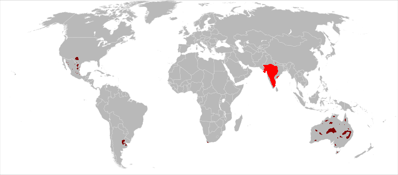 Antilope_cervicapra_map_2